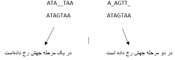 تفاوت میان رخ دادن دو پرش و رخ دادن یک پرش به طول دو. رخ دادن یک پرش به طول دو محتمل‌تر از حالت دیگر است. این تفاوت در هنگام استفاده از جریمه‌ی پرش نسبی، لحاظ می‌شود، ولی در سایرسیاست‌های پرش، هر دوی این هم‌ترازی ‌ها یک امتیاز می‌گیرند.